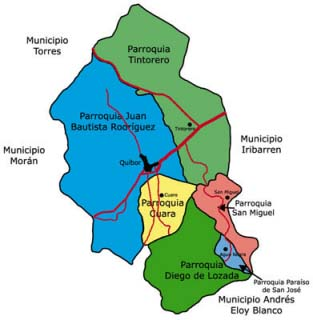 Map of the Municipality Jimenez